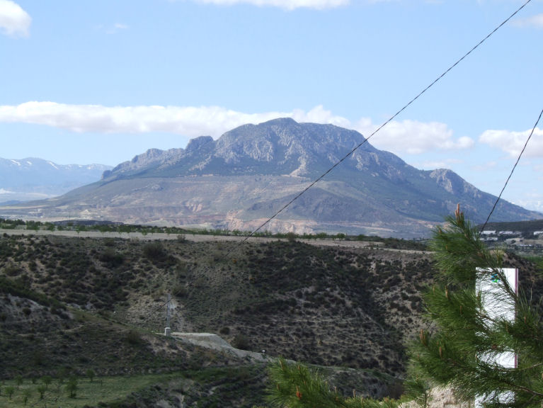 Andrew Arnold